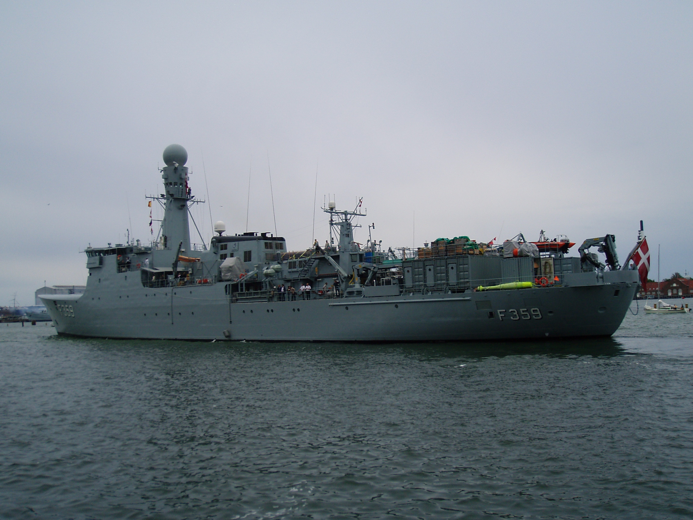 HDMS Vædderen departing Copenhagen Port to embark on the Galthea 3 expedition.